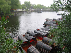 Shaoxing DongHu (east lake) photo, took it myself (2003/10).